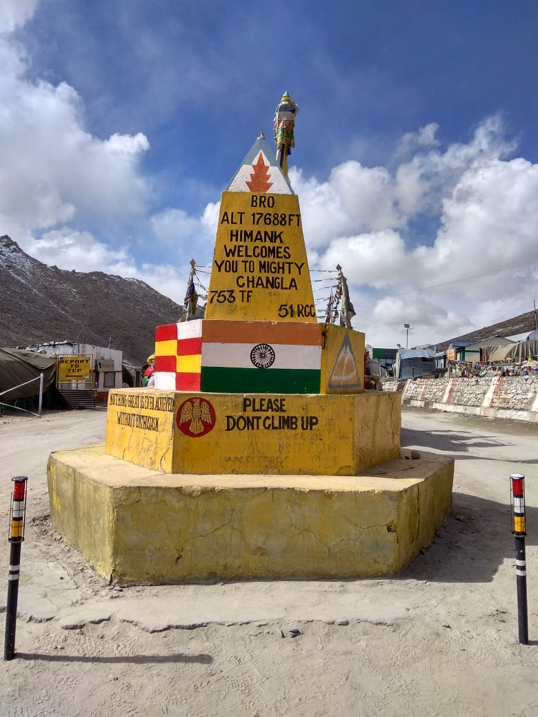 Himank Mighty Changla 17688 FT in Leh Ladakh